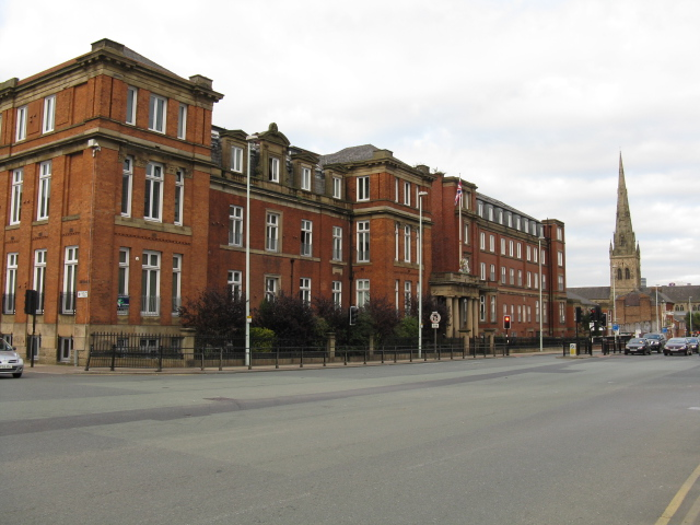 Former Salford Royal Hospital